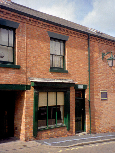 D H Lawrence Birthplace, Eastwood